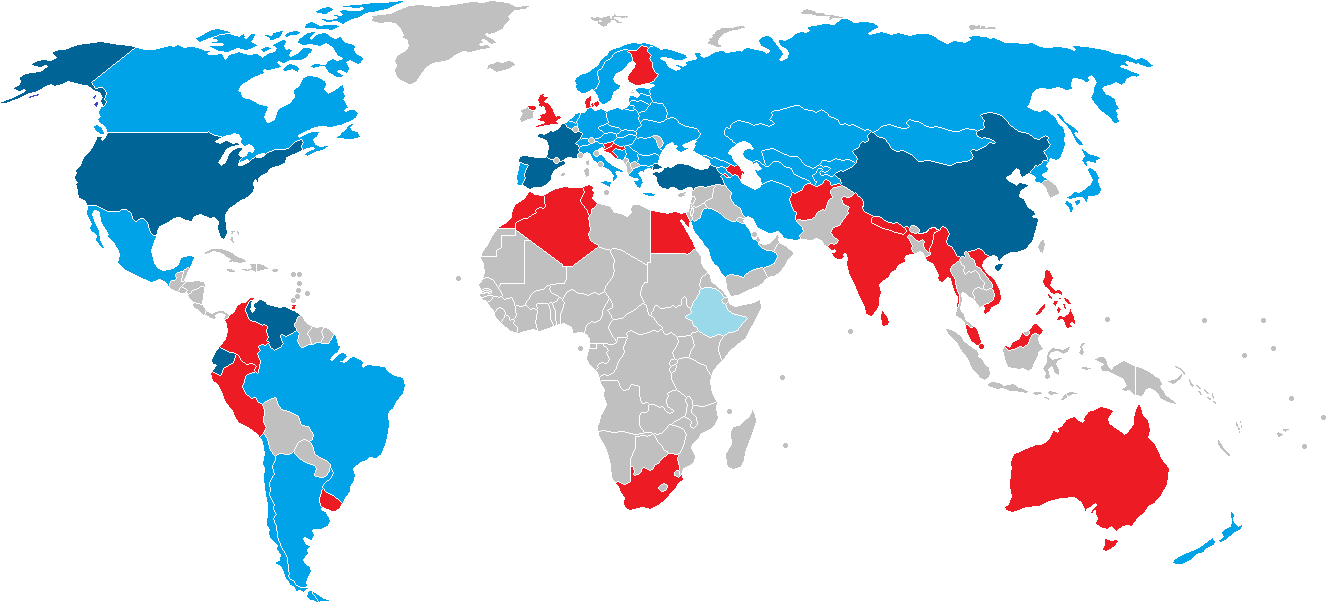 Trolleybus networks around the world: Trolleybus networks in operation, including bus rapid transit networks Trolleybus networks in operation, without bus rapid transit networks Trolleybus networks planned (as new or reconstruction) Countries that had trolleybus networks Countries that never had trolleybus networks